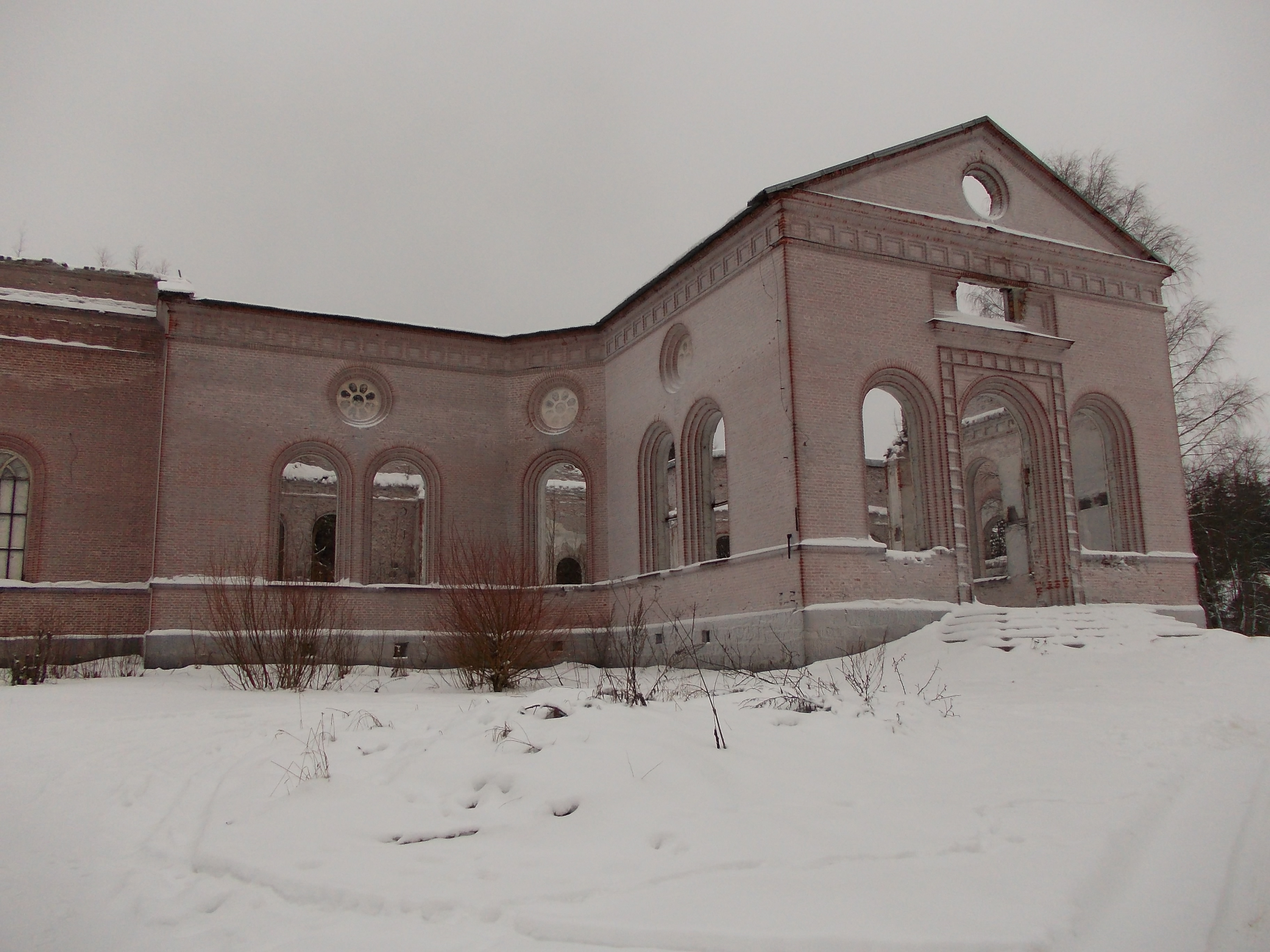 Ruins of Jaakkima lutheran church.